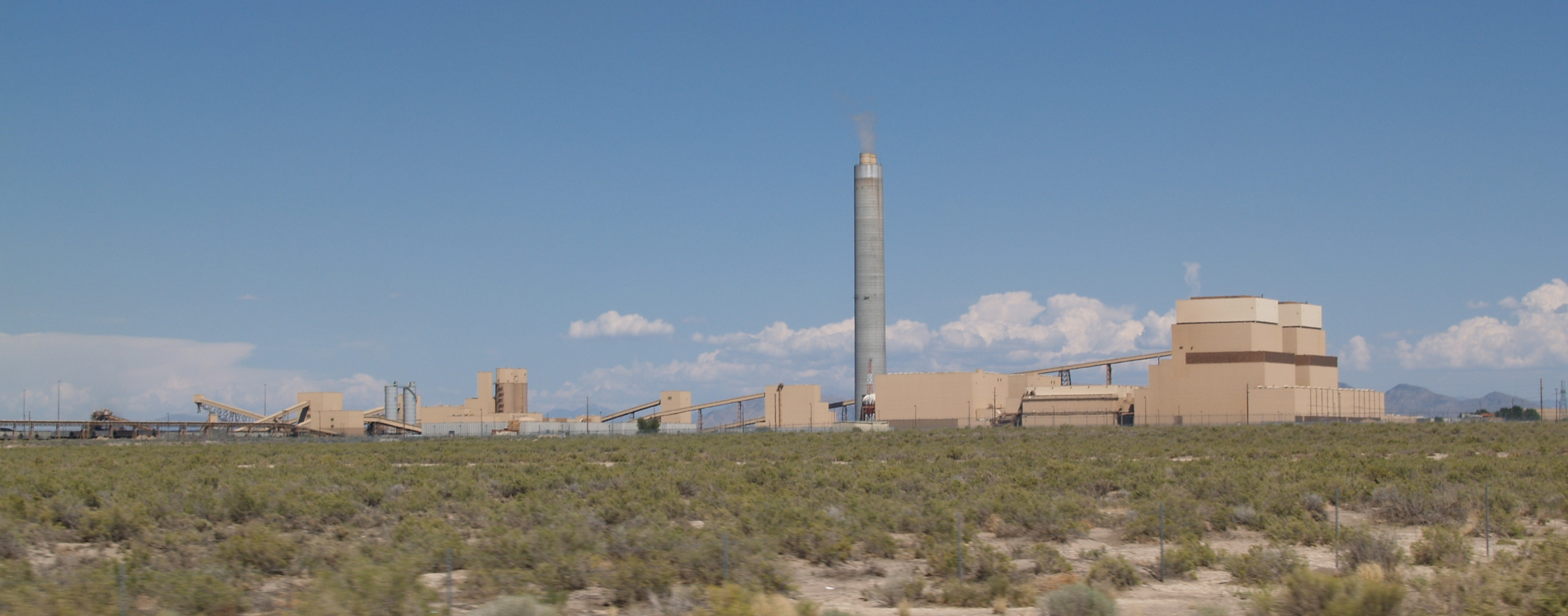 Photo of the Intermountain Power Project (near Delta, Utah) from the ground.